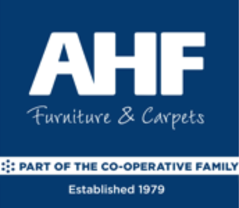 Logotype